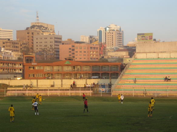 Two football clubs battle it out in Nakivubo Stadium in Kampala, Uganda